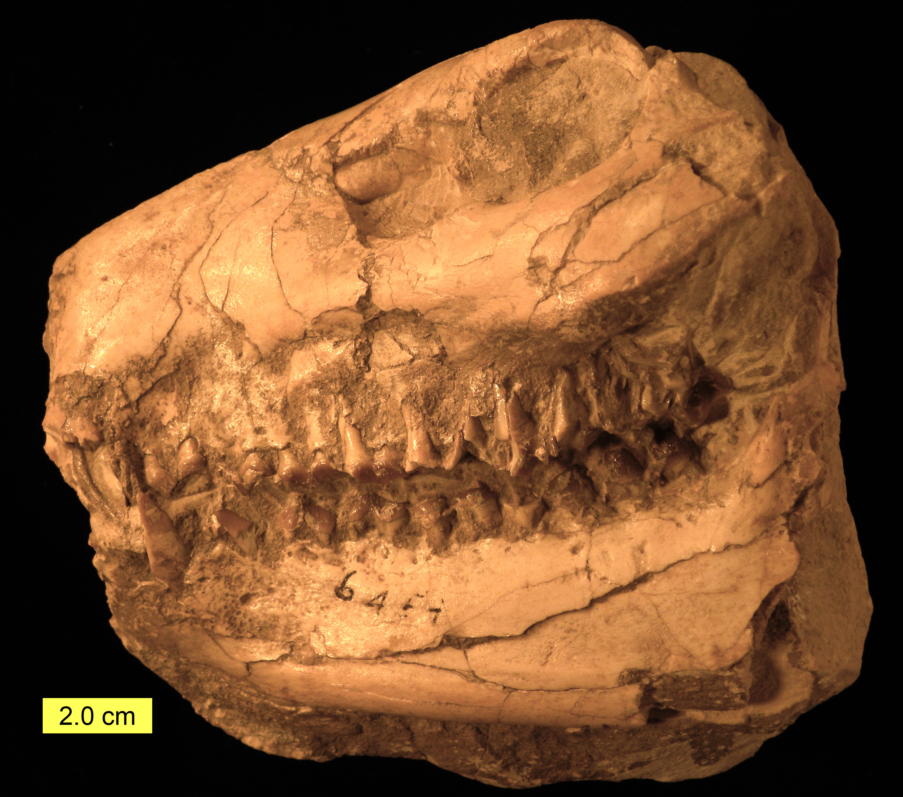 Merycoidodon skull, left side (Oligocene of Nebraska).